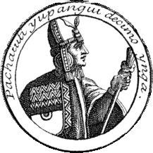 Portrait of Pachacuti, detail of the frontispiece to the fifth Decade of Historia general de los hechos de los castellanos en las Islas y Tierra Firme del mar Océano que llaman Indias Occidentales by Antonio de Herrera